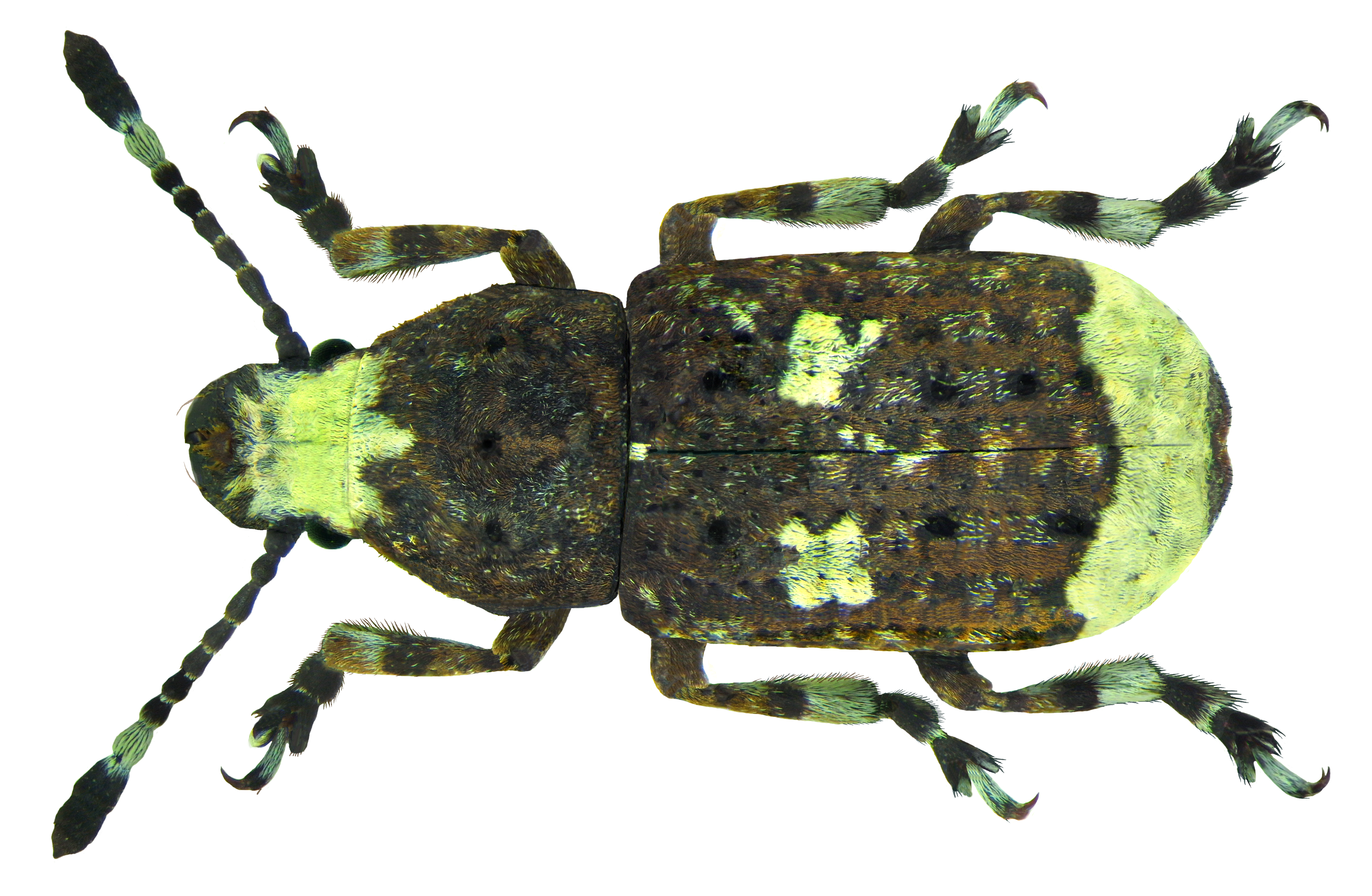 Family: Anthribidae Size: 5,3-7,2 mm Origin: Europe, Asia Minor, Middle East Ecology: on fungus-infected hardwoods Location: Germany, Bavaria, Upper Franconia, Neuenmarkt leg.det. U.Schmidt, 16.V.1971 Photo: U.Schmidt, 2012